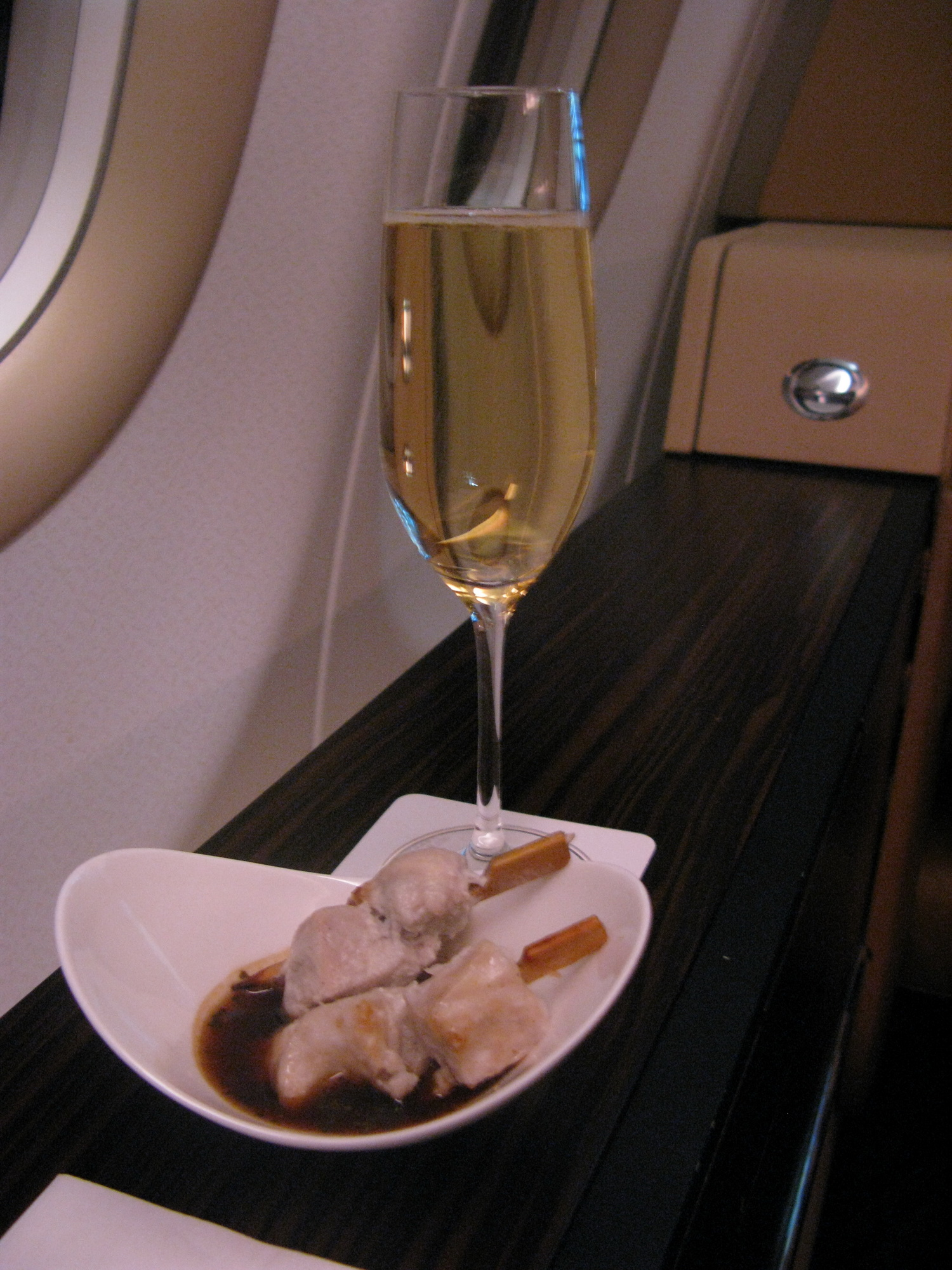 French Champagne from Billecart Salmon